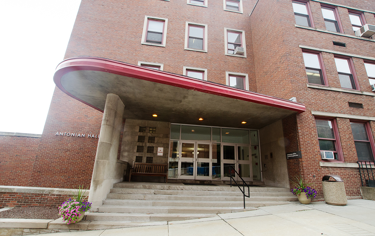 Carlow University Antonian Hall main entrance